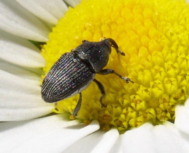 Flower weevil, Odontocorynus umbellae. Size: +/- 5 mm. Rte. I 95 overlooking Mt. Katahdin, Penobscot County, Maine, USA.